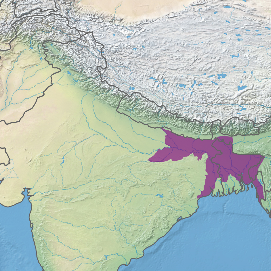 Ecoregion IM0120 - Lower Gangetic plains moist deciduous forests (in purple)